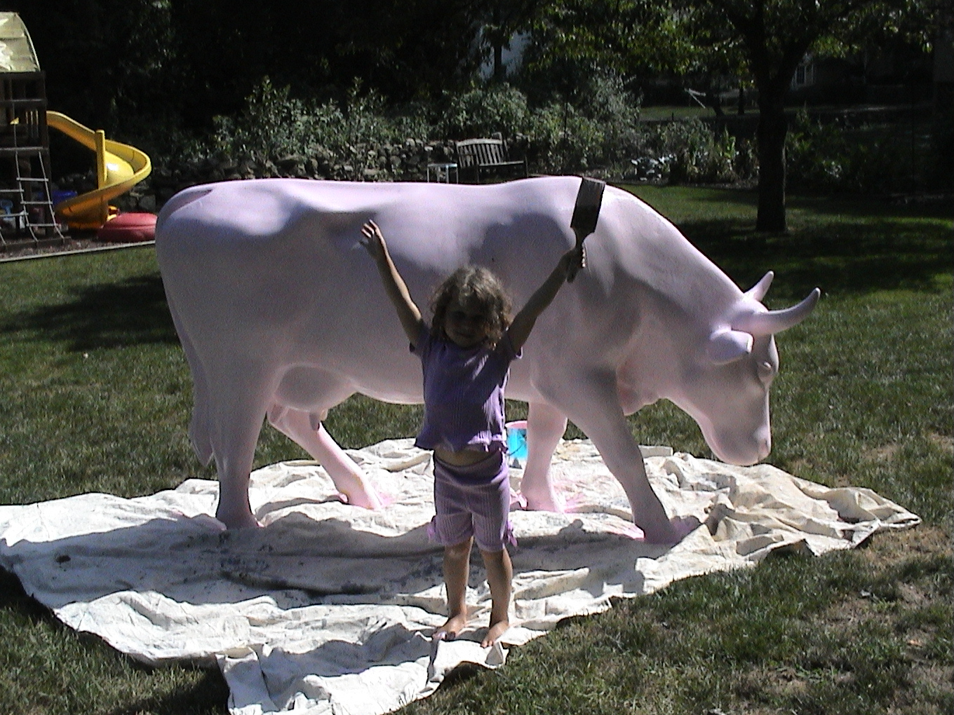 Gladys the Swiss Dairy Cow's first paint job, Author: James Lebinski